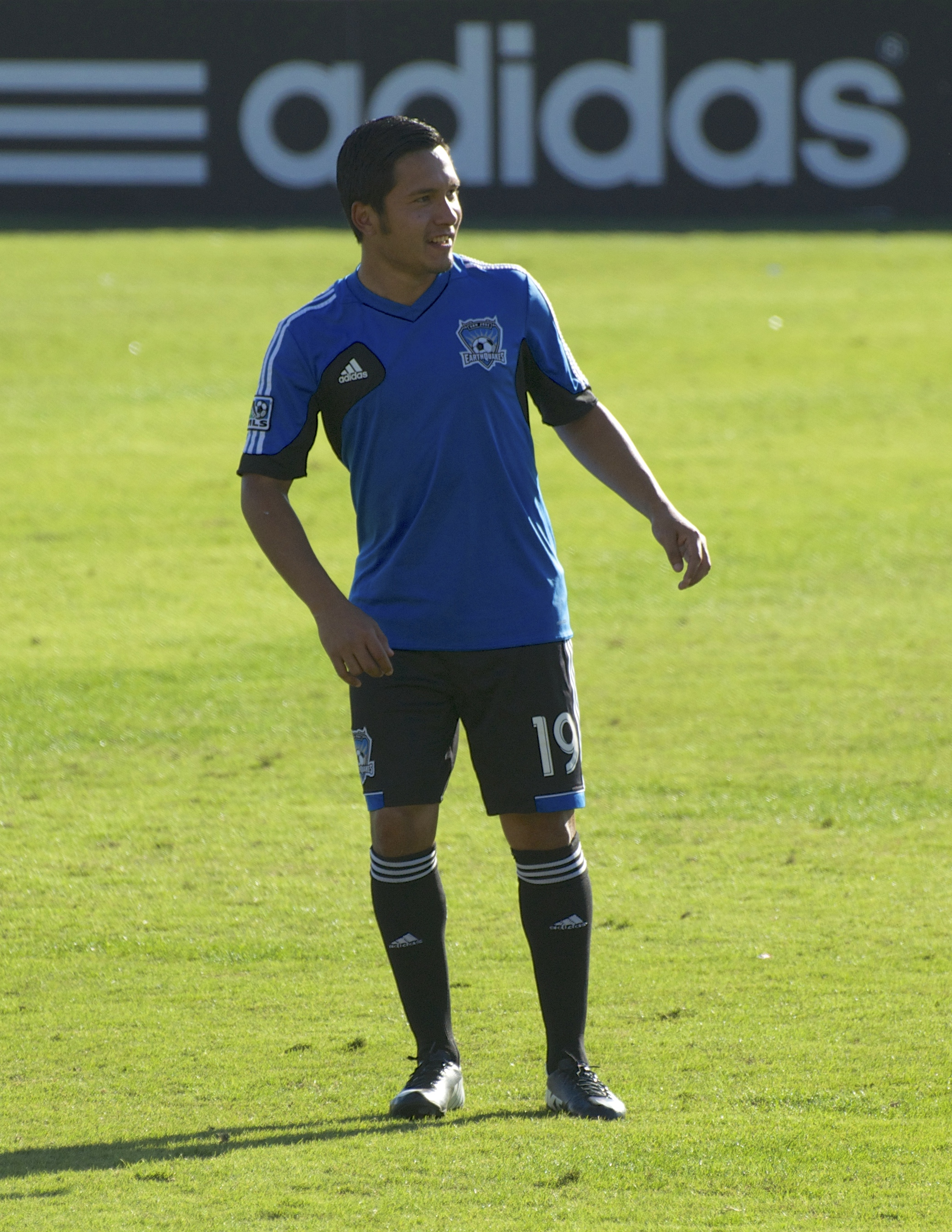 Jaime Alas, Buck Shaw Stadium, 26 October 2013, warming up at halftime